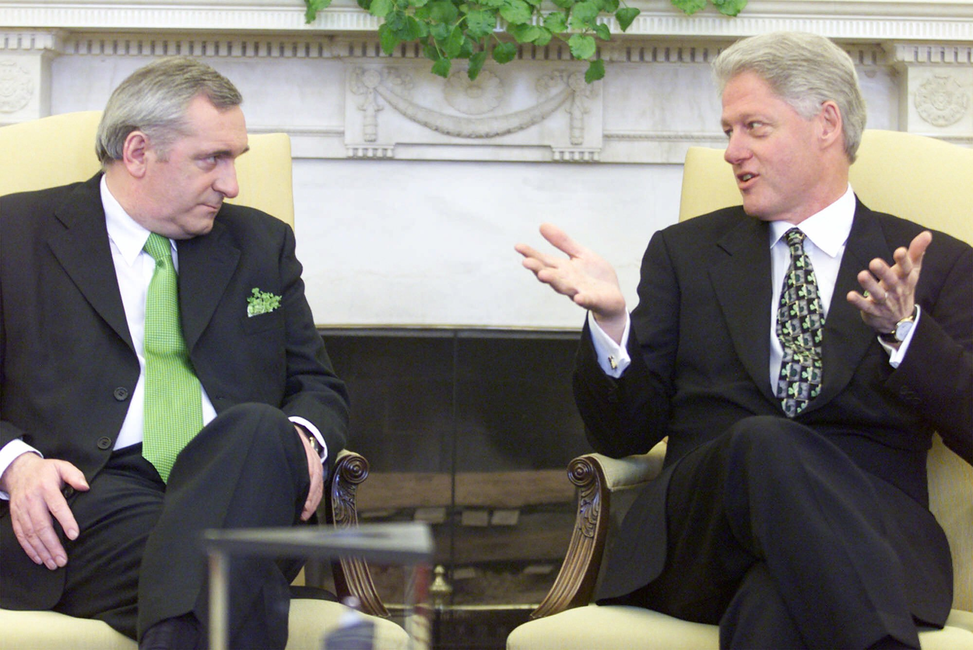 United States President Bill Clinton meets with Taoiseach Bertie Ahern in the Oval Office of the White House on Friday March 17, 2000. Clinton welcomed a parade of Northern Ireland's quarreling leaders to the White House, hoping to use the cheer of Saint Patrick's Day to nudge them toward a compromise.